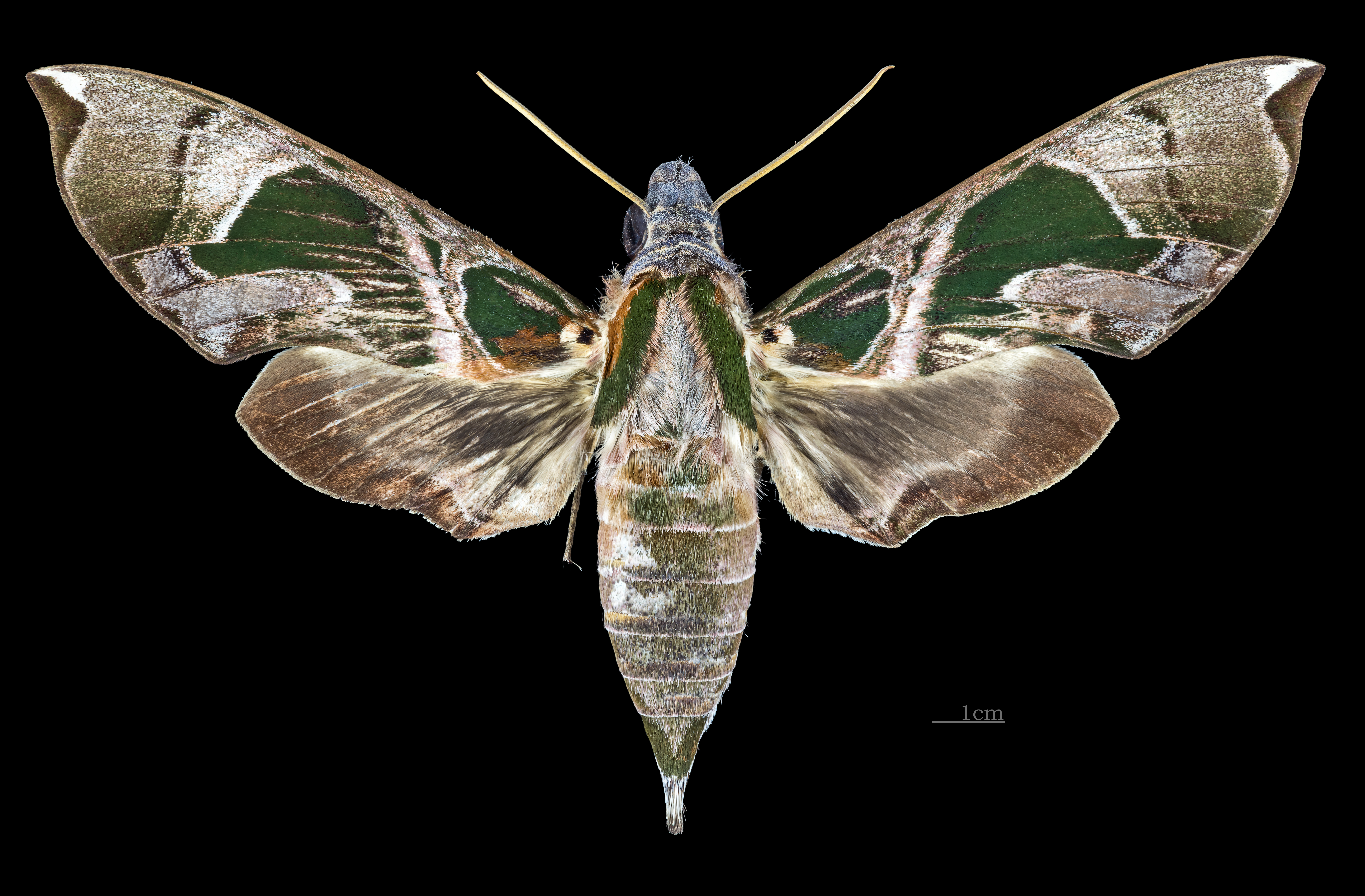 Daphnis hayesi - Dorsal side Collection of the Mathematician Laurent Schwartz